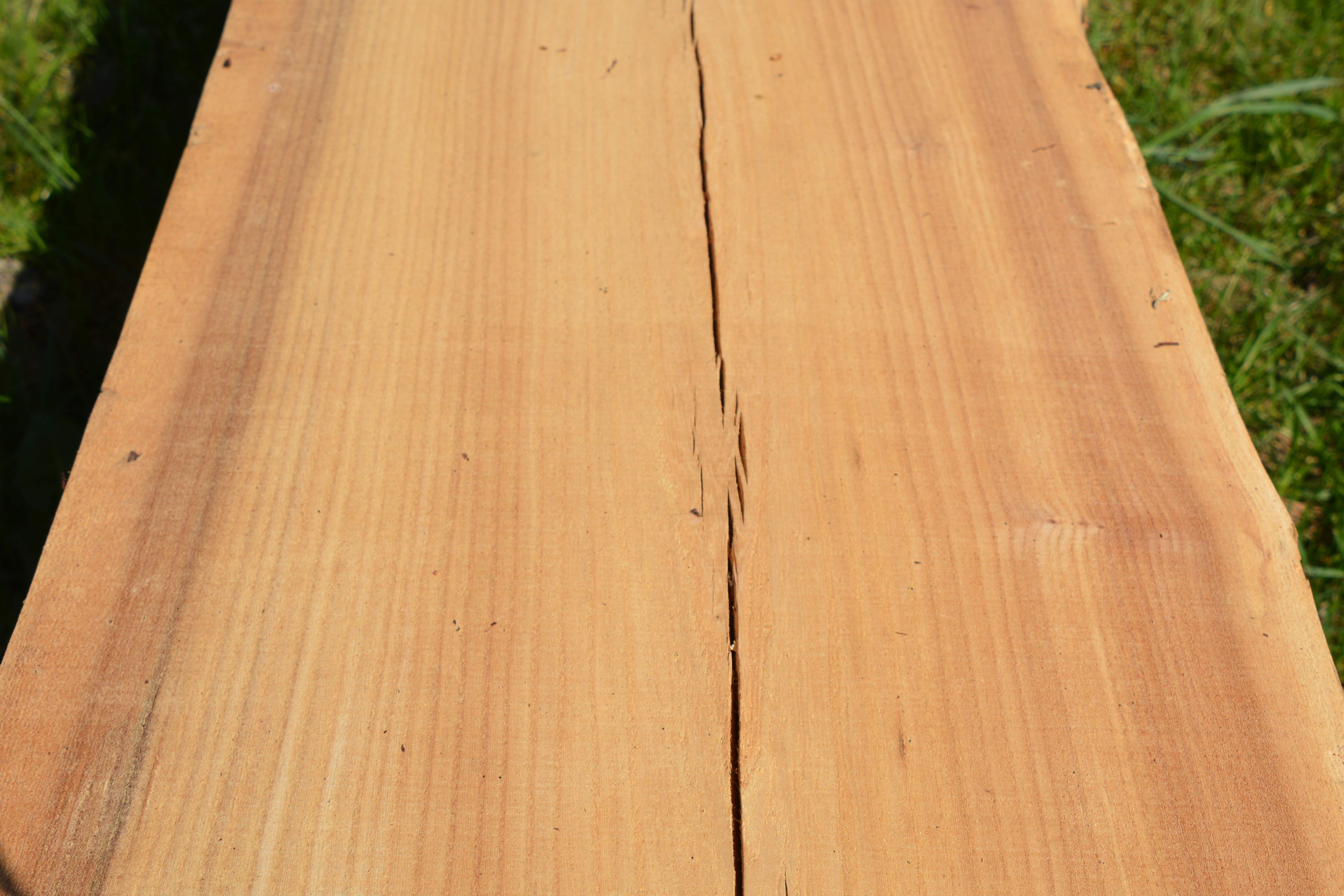 Elm wood